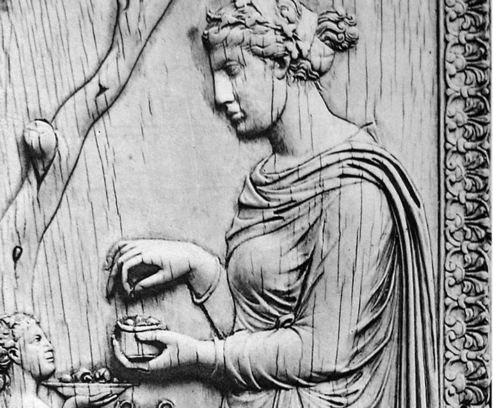 Diptych of the Nicomachi-Symmachi. Licensing